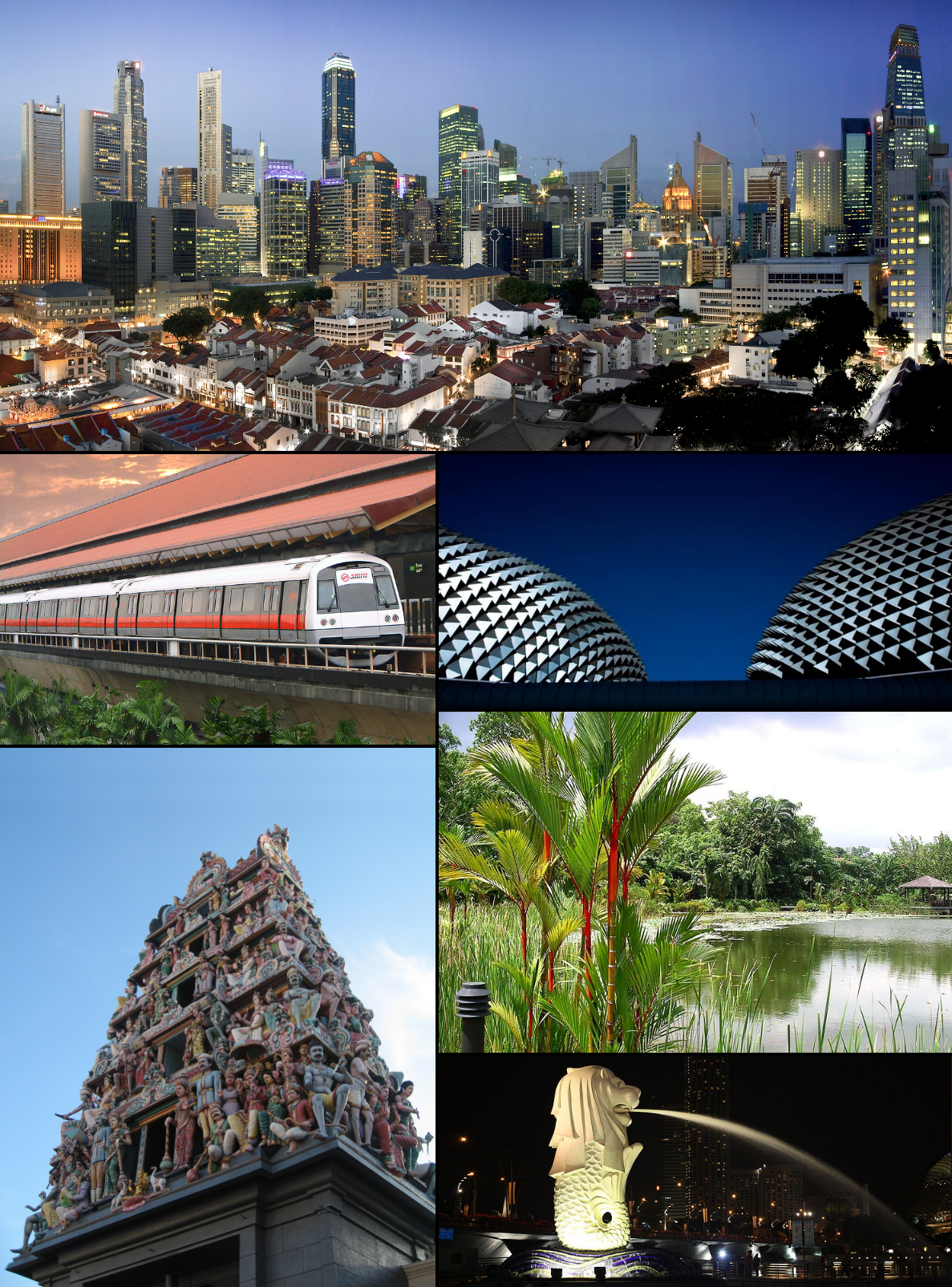 A montage of various Singapore images.